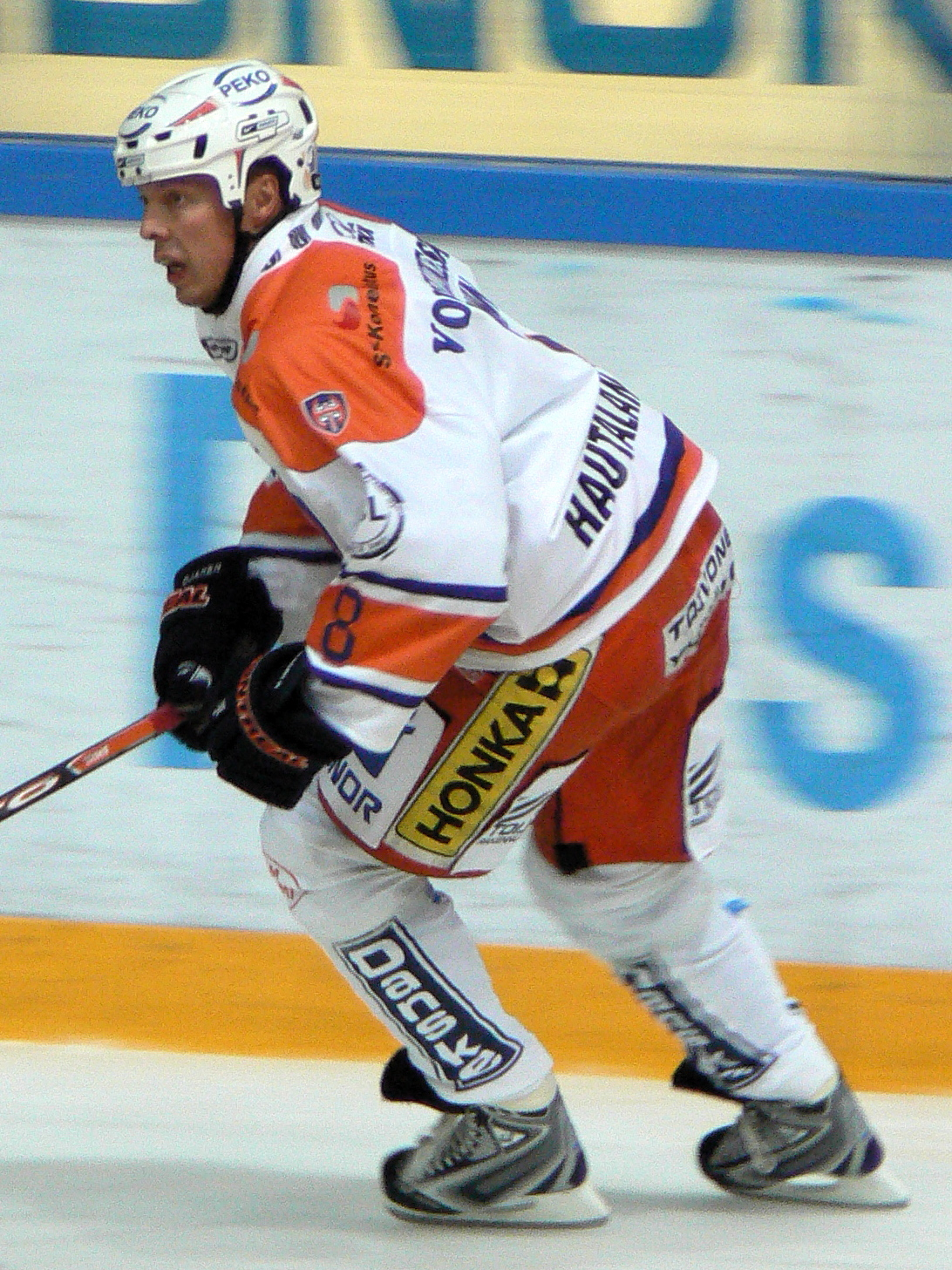 Finnish ice hockey center Janne Ojanen playing for Tappara Tampere in September 2008.